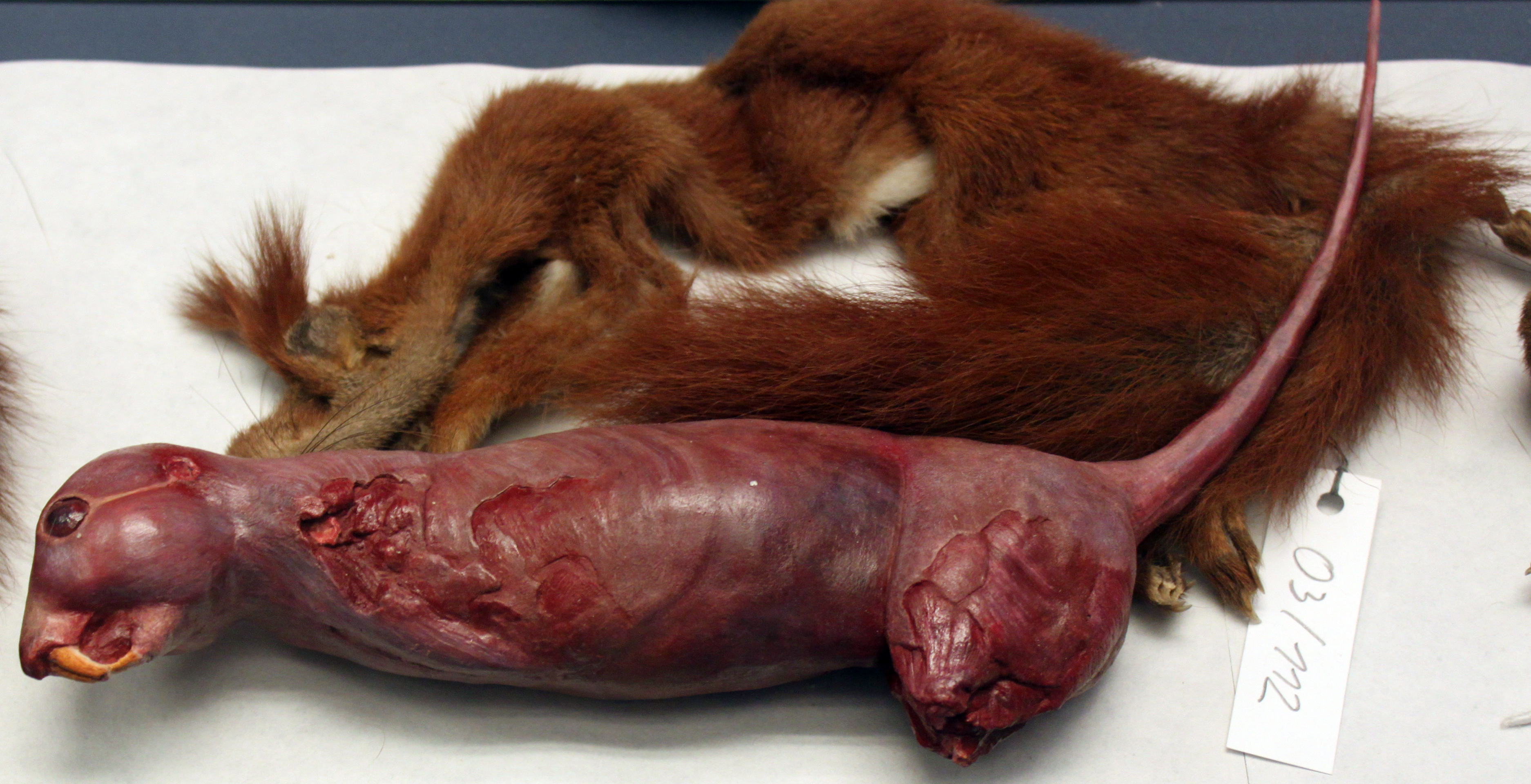 Showcase at the Natural History Museum Berlin: Taxidermy of a squirrel (Sciurus vulgaris). First step: The skinning. The animal skin is gently separated from the muscle body, cleaned, conserved and protected from insects. Bones remaining in the skin are cleaned.